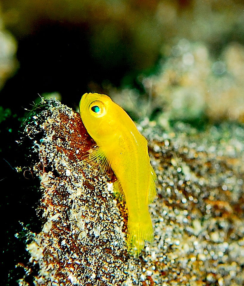 Yellow Clown Goby, North Sulawesi